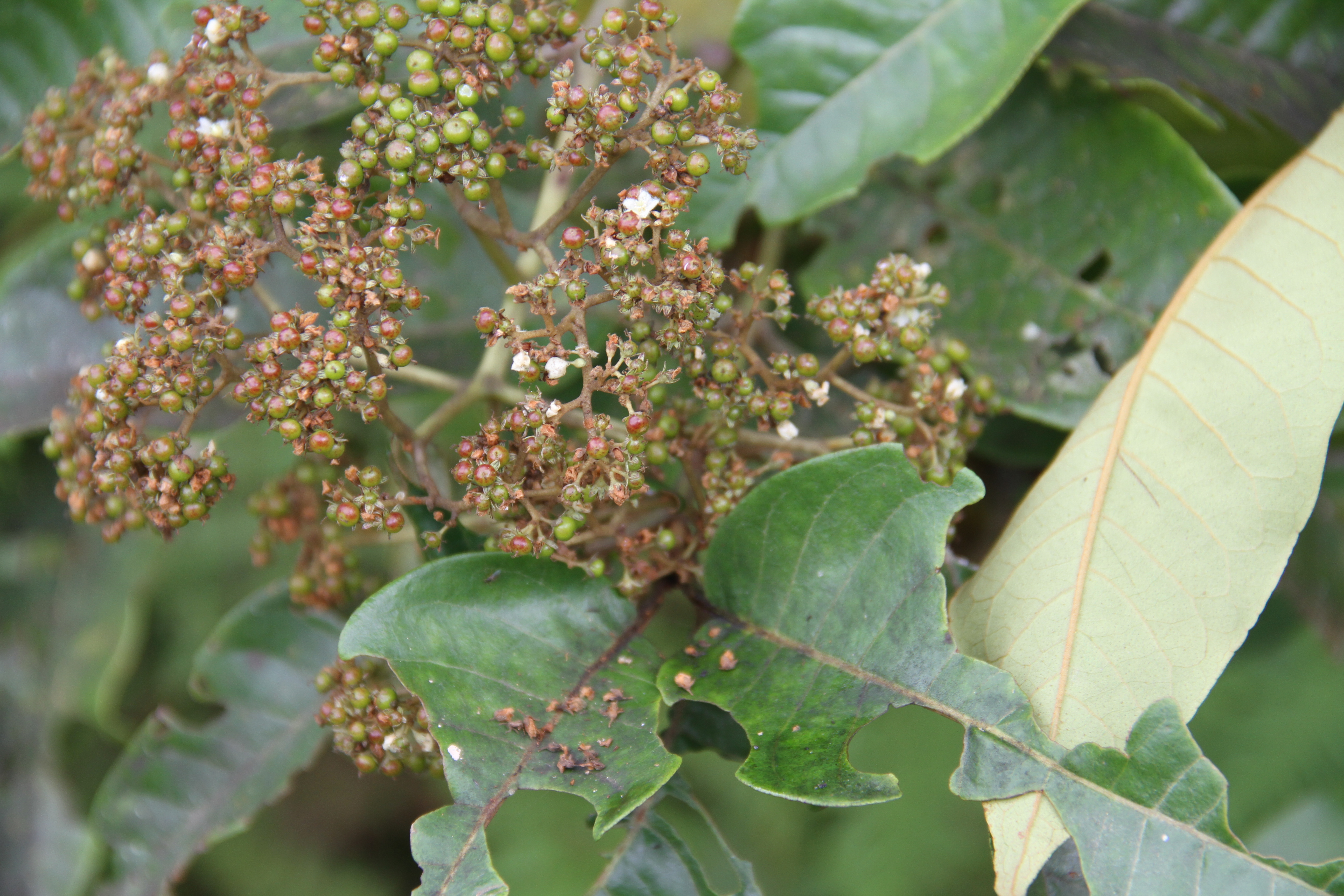 Harungana madagascariensis in Bioko, December 2013, The making of this document was supported by the Community-Budget of Wikimedia Germany.